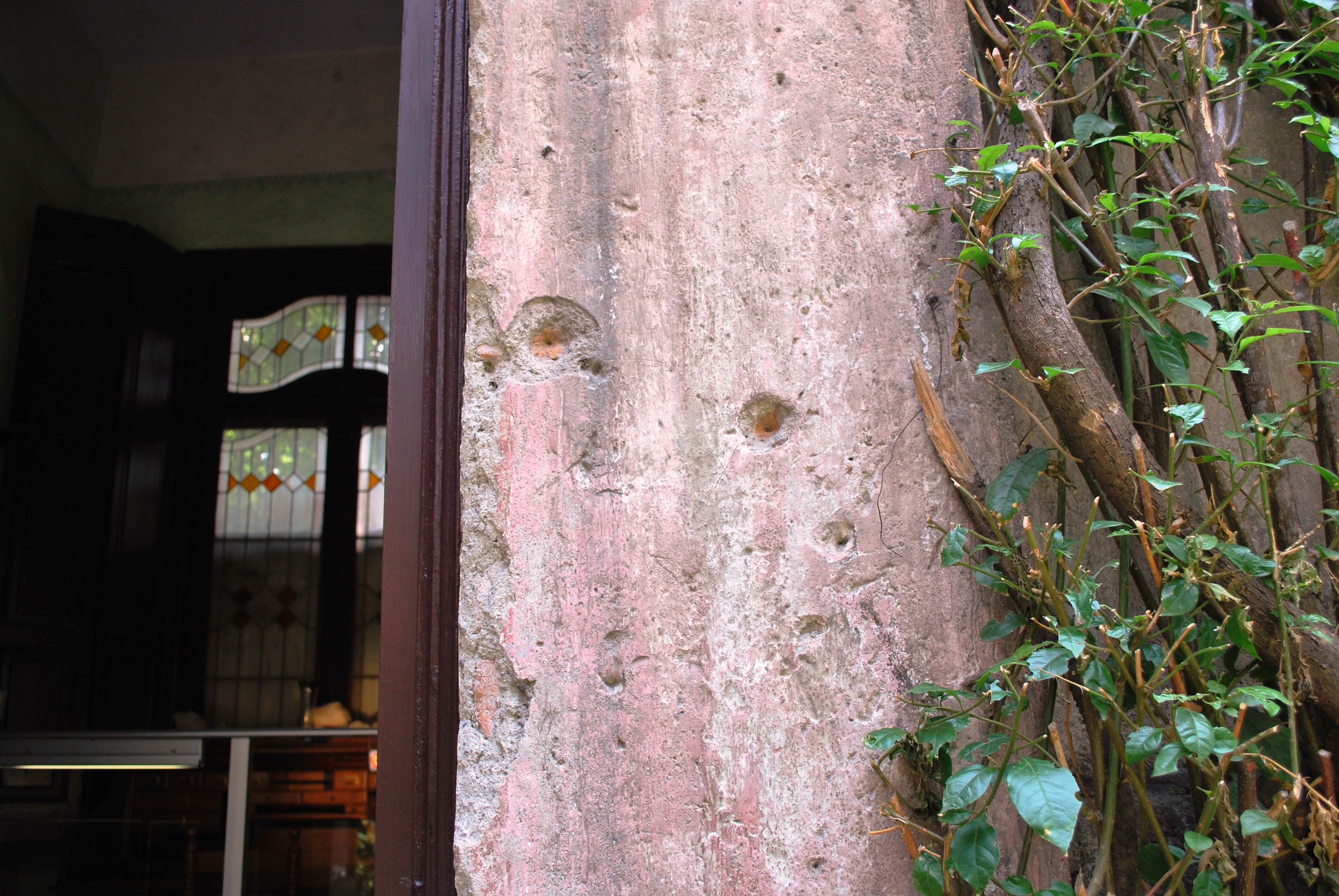 Bullet marks on side door of the House of Leon Trotsky Museum located in Coyoacan borough, Mexico City. Left by attack on house led by David Siqueiros.